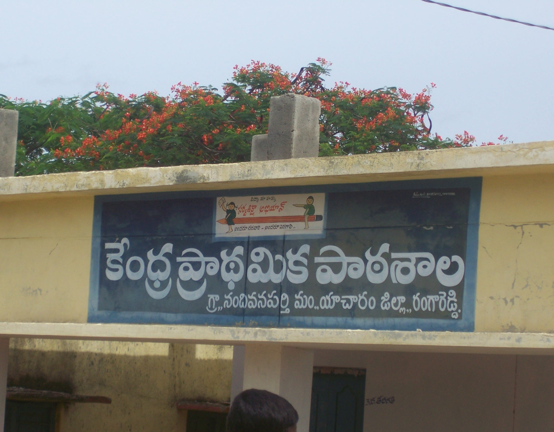 primary school